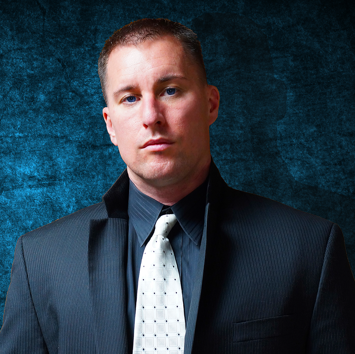 American stunt performer, director-producer, entrepreneur Kenny Kelley. Evidence: The license agreement will be forwarded to OTRS shortly.